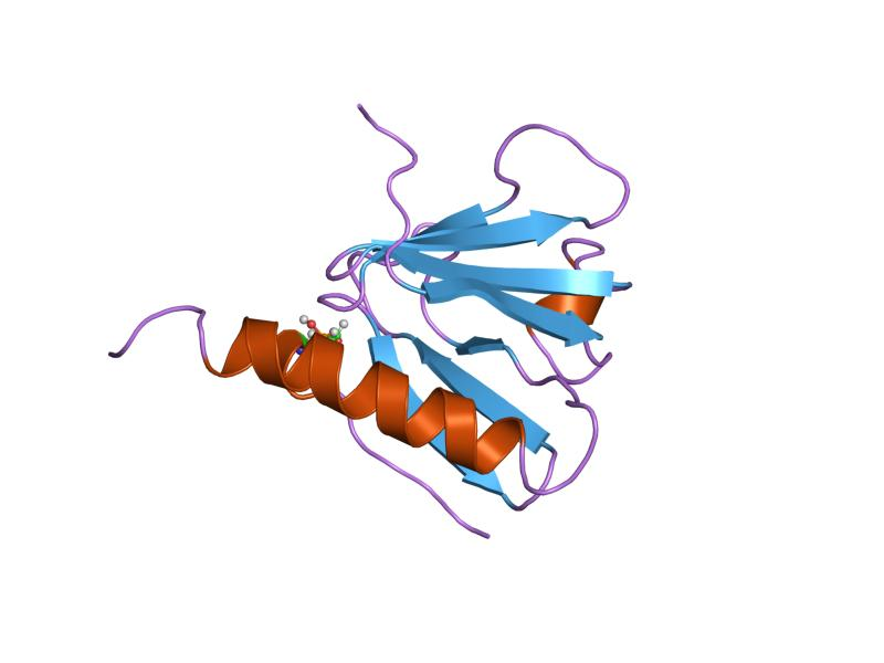 Cartoon representation of the molecular structure of protein registered with 1irs code.